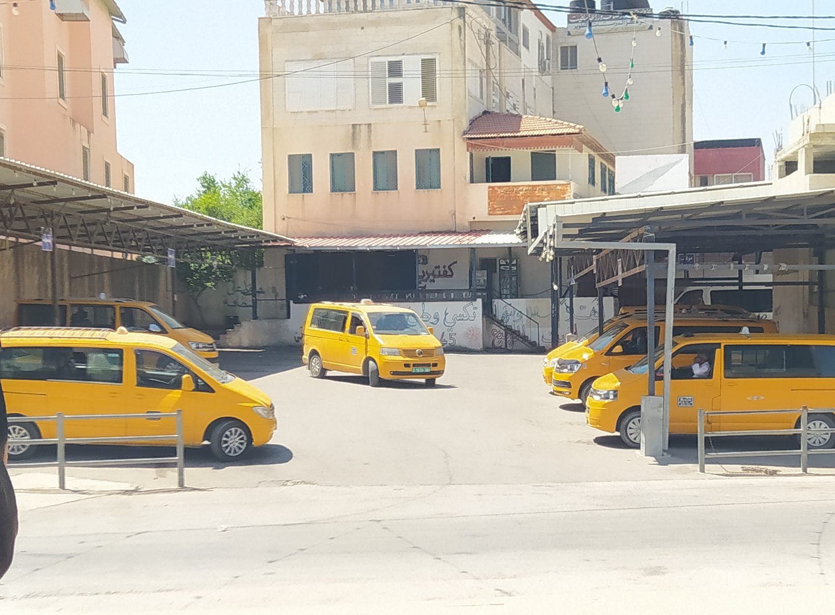 Salfit taxis station